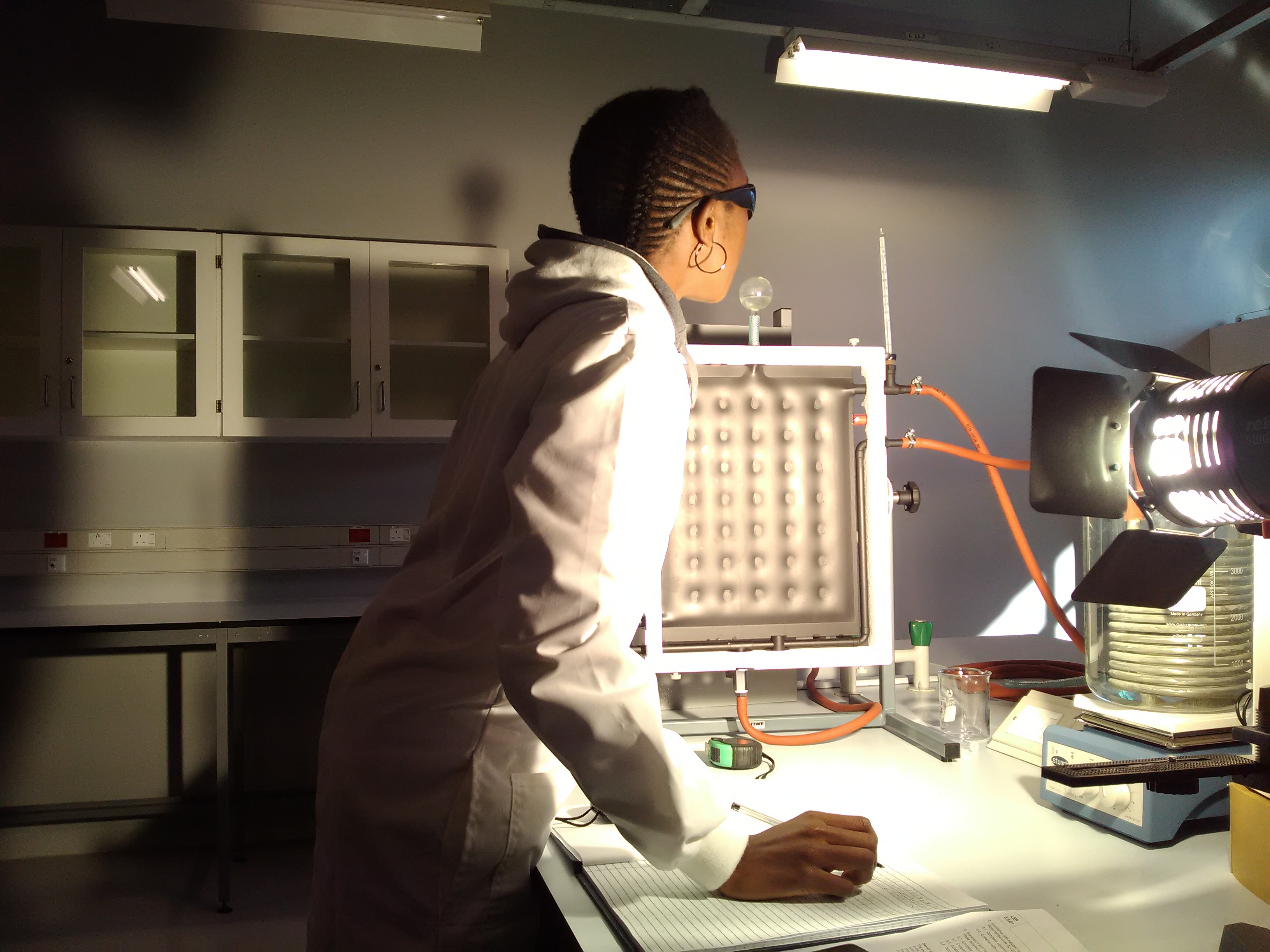 A young woman taking a temperature reading during a Physics Laboratory experiment. The photograph was spontaneously taken by her Laboratory partner. This is an image of "African people at work" from Botswana